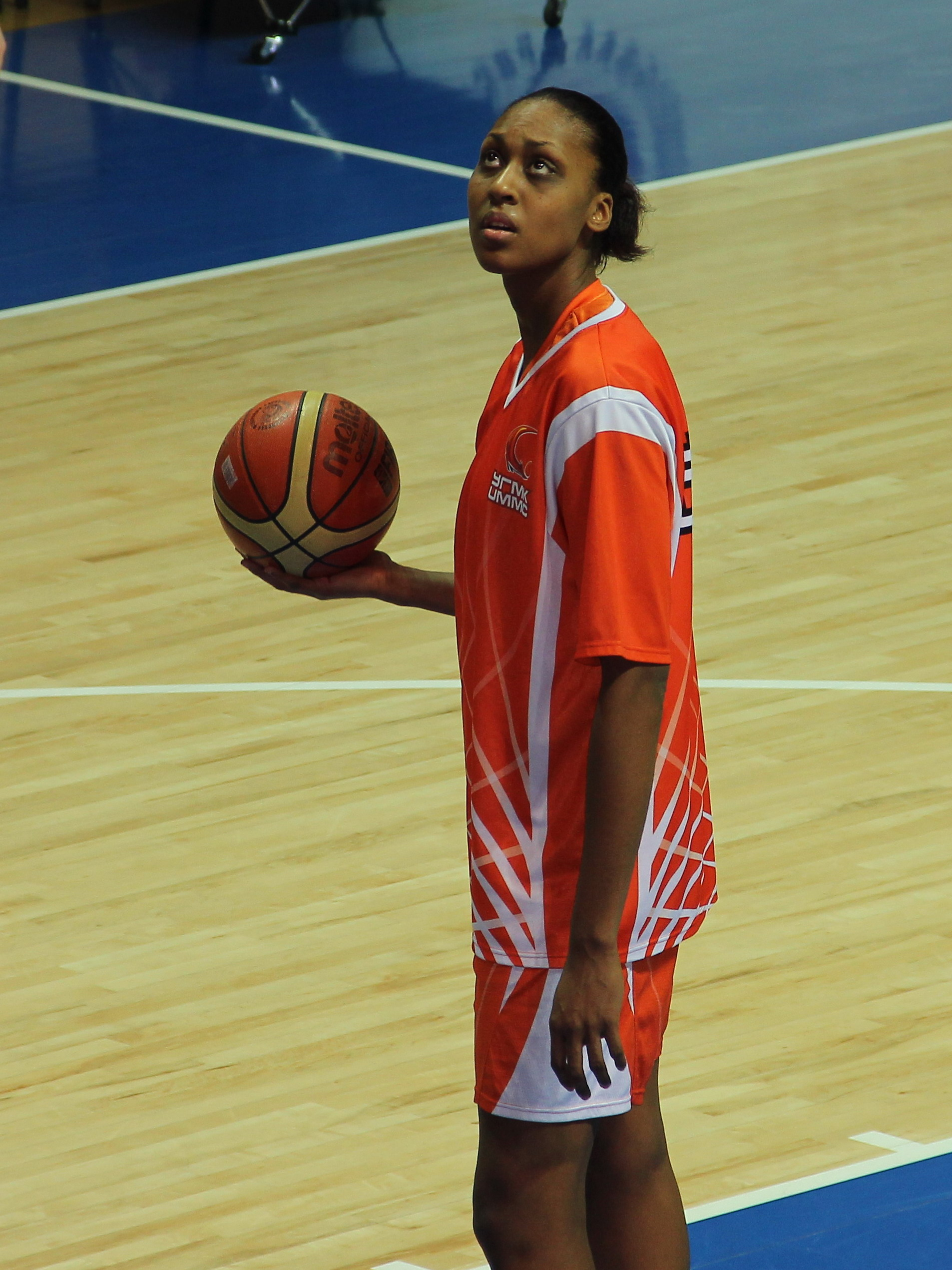 Russia, Vologda, Sandrine Gruda in game «Vologda-Chevakata» vs «UMMC» (Yekaterinburg)